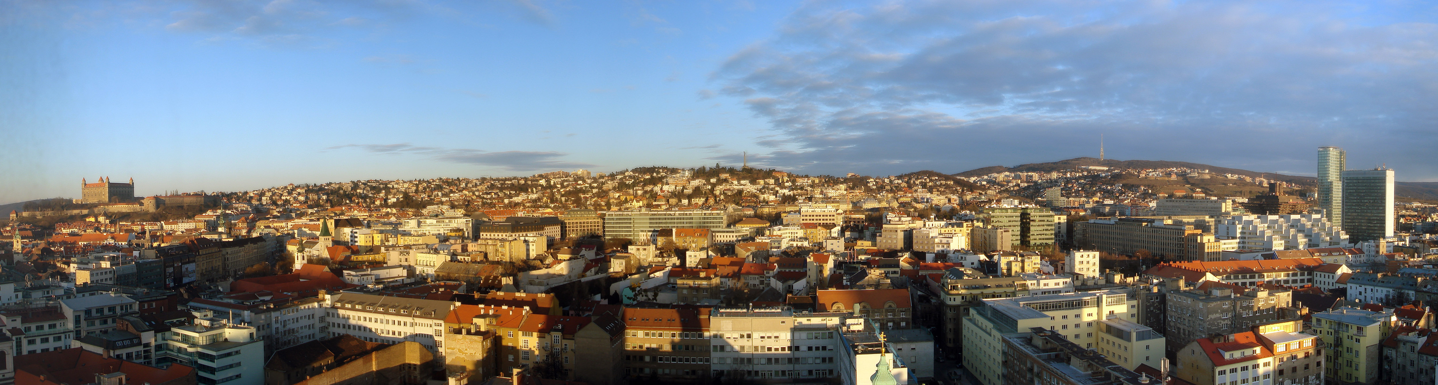 The morning sunlight over Bratislava, Slovakia. February 2008.